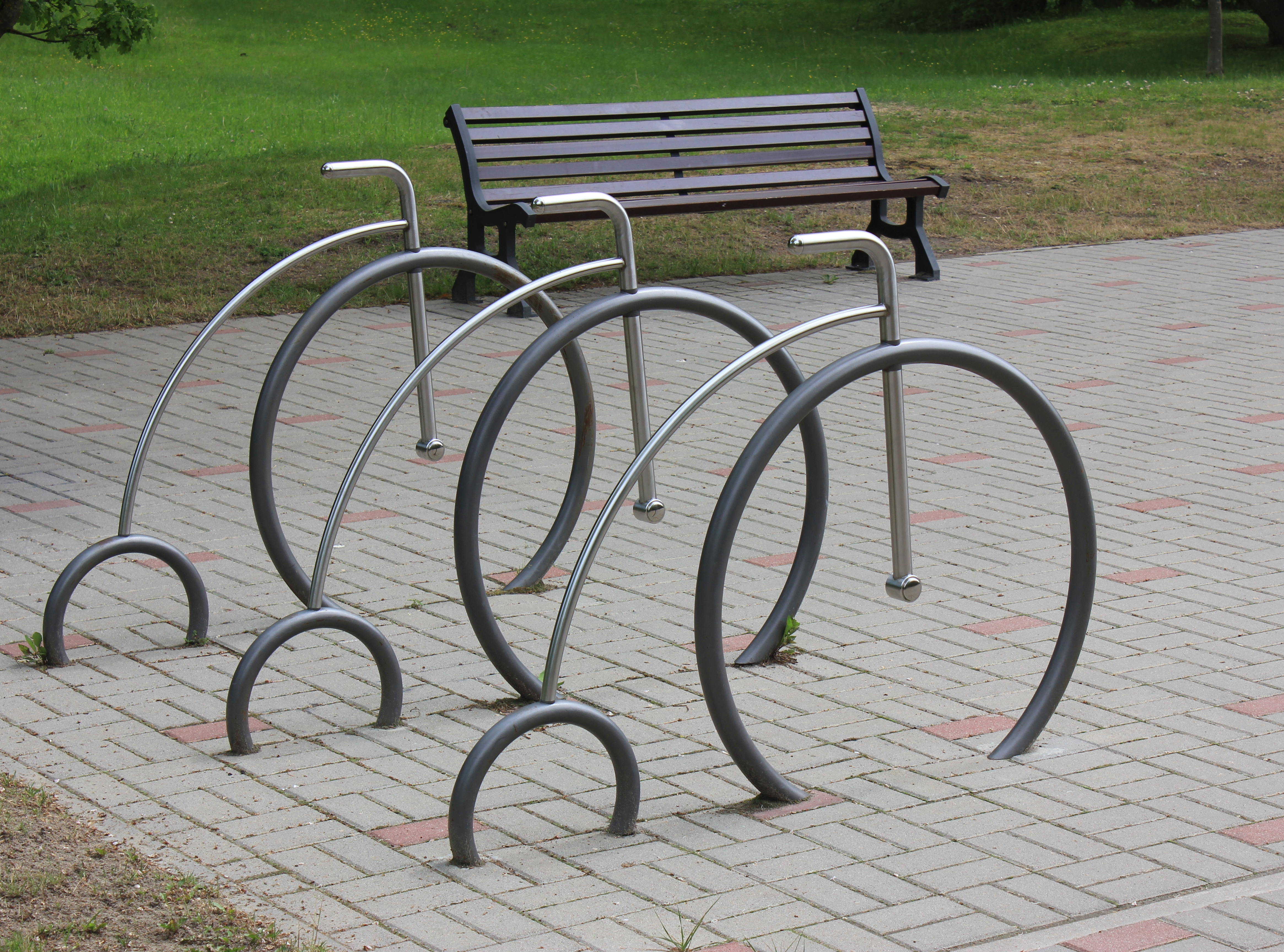 Liepaja - bike racks